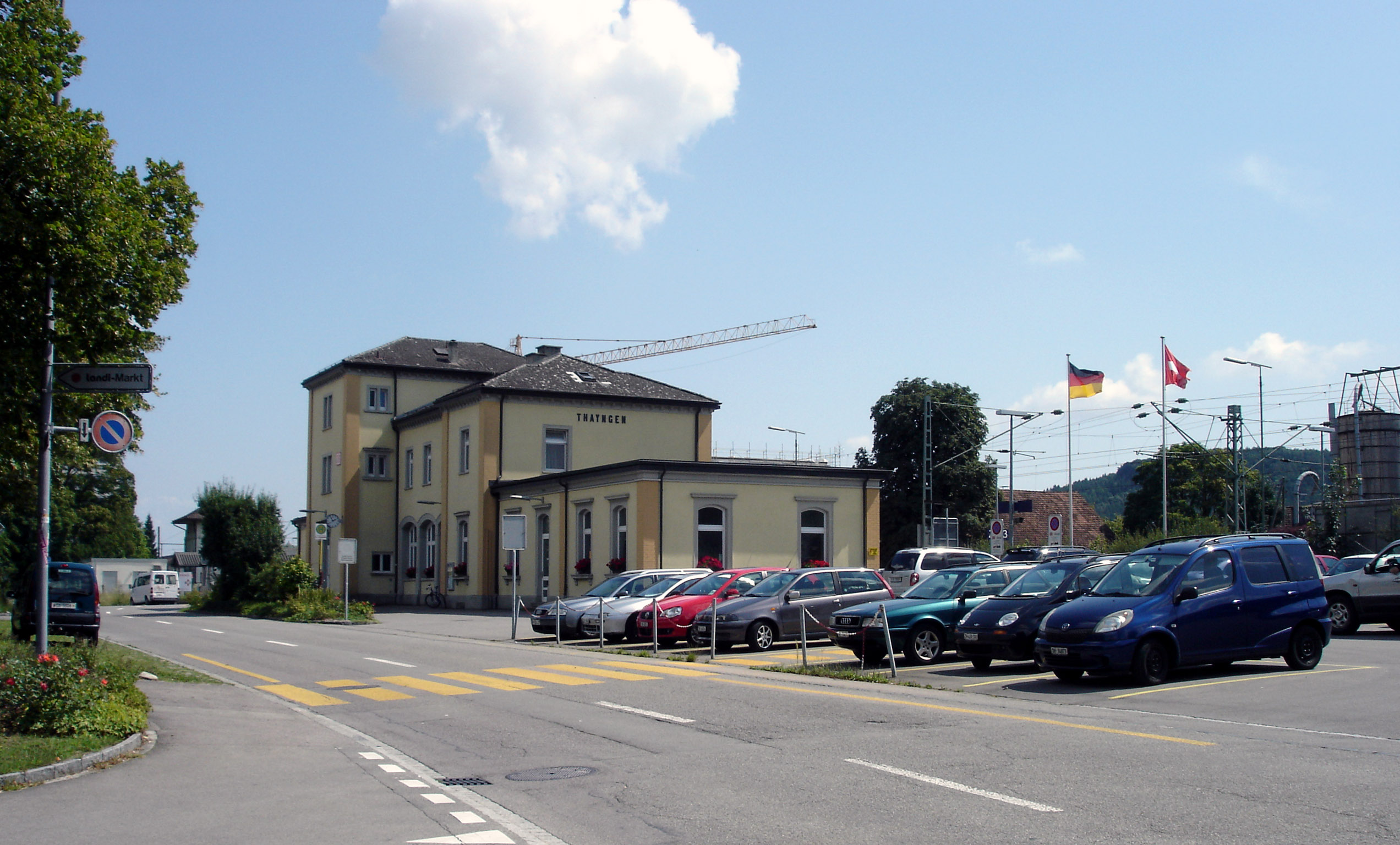 Railway station of Thayngen (Switzerland)